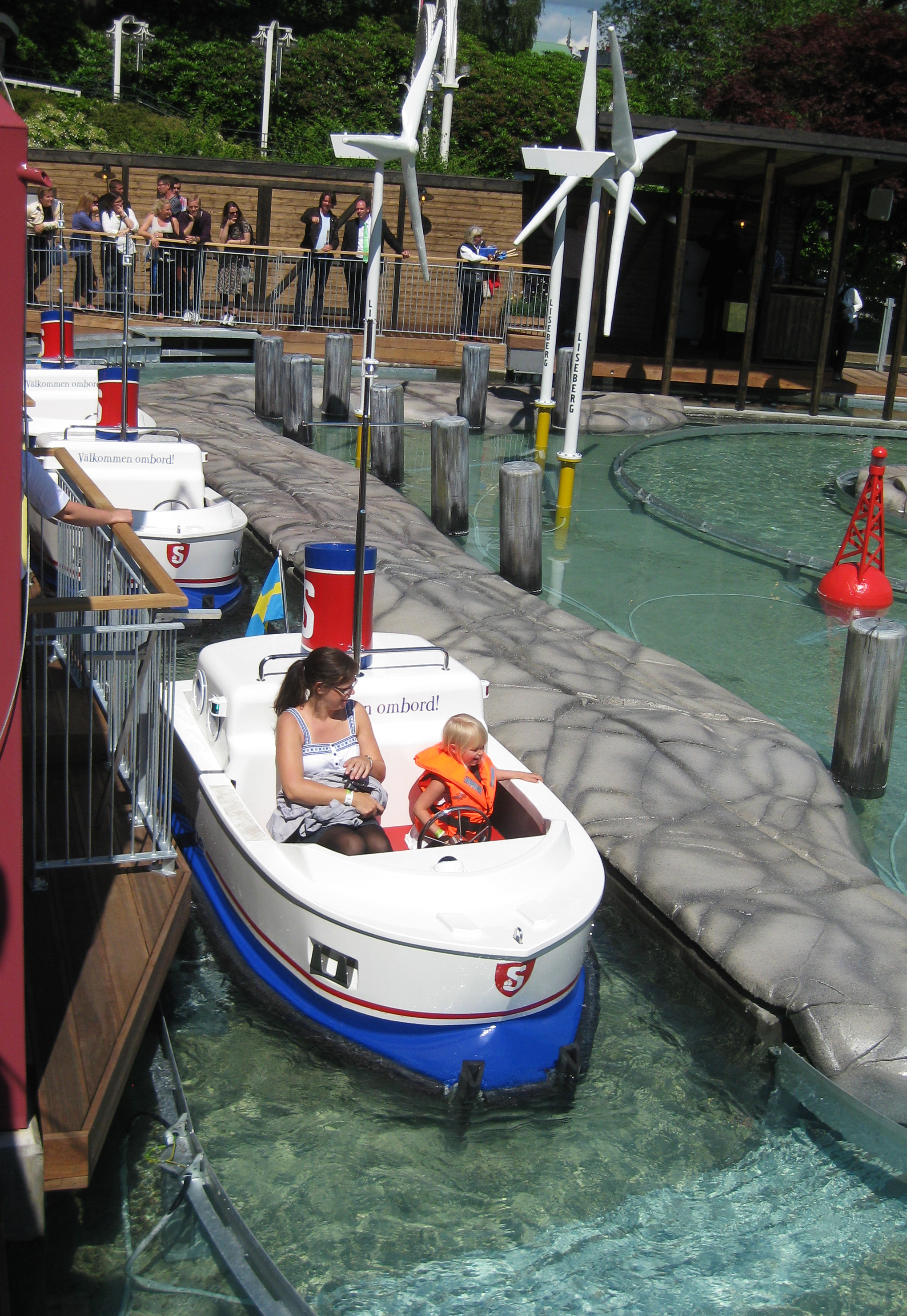 Skepp o' skoj is an amusement ride at the Liseberg amusement park in Gothenburg, Sweden.